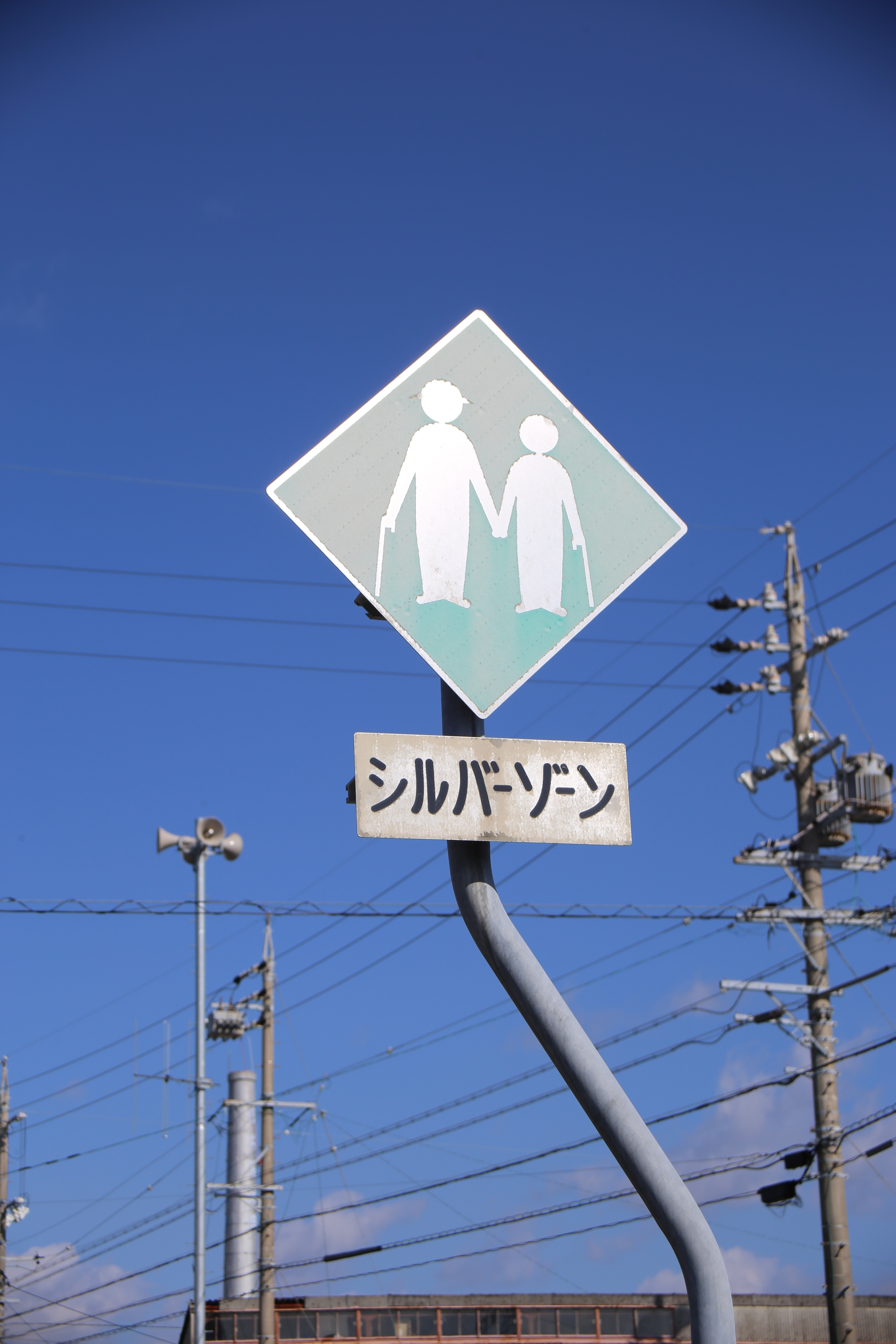 Road sign indicating the silver zone in Tahara-cho, Tahara City, Aichi Prefecture